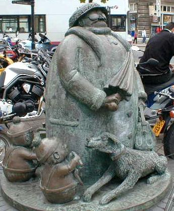 A statue of Grandma, some spherical babies and a dog. Being representations in bronze of members of the Giles family, characters from the long-running British cartoon series drawn by Carl Giles. It is in Queen Street in Ipswich, England. Grandma stands looking up at the newspaper office window where Carl Giles used to work. Compare with Dan and the Minx, other cartoon characters made three-dimensional.